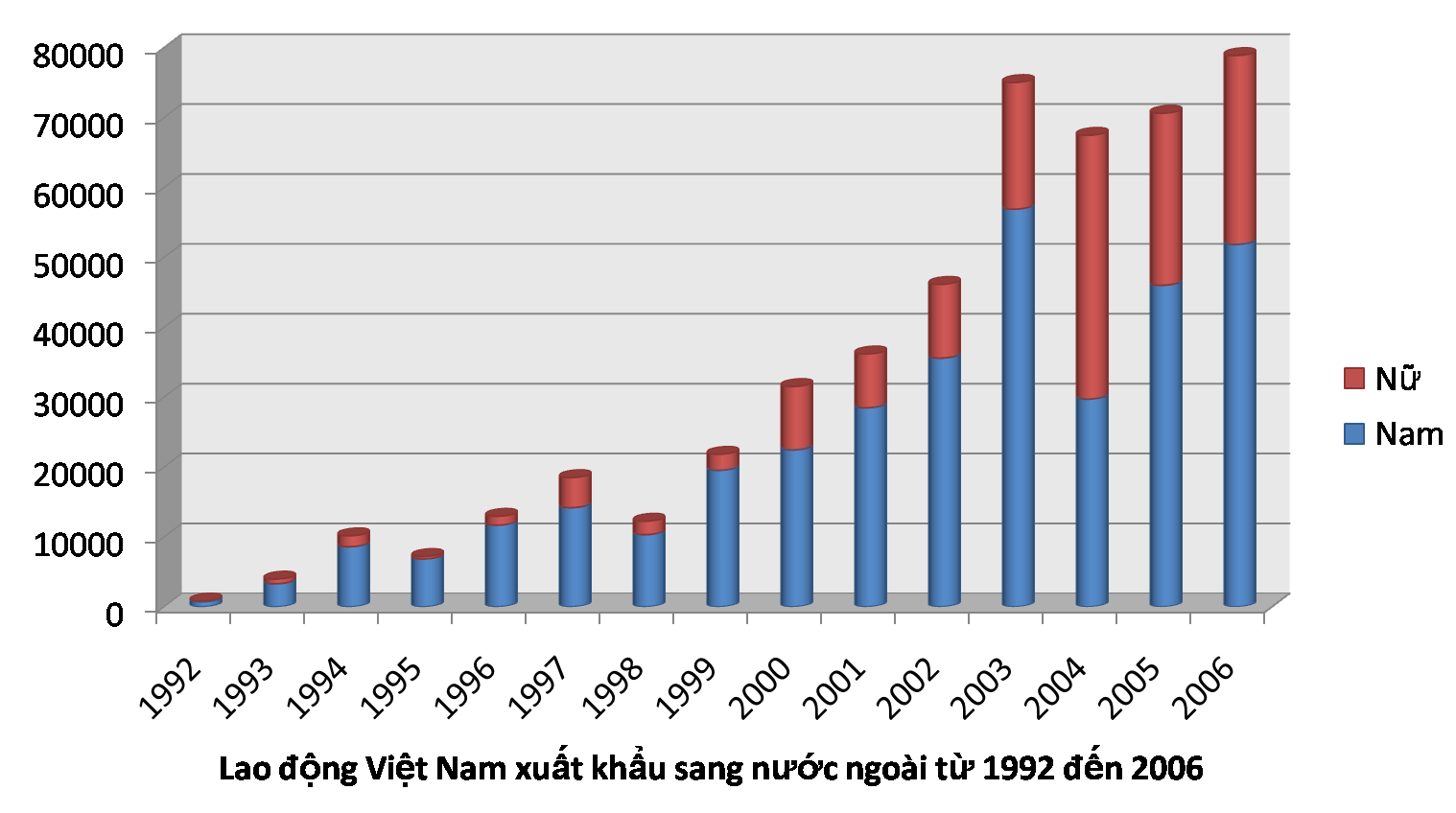 Vietnamese labor exports by gender from 1992 to 2006